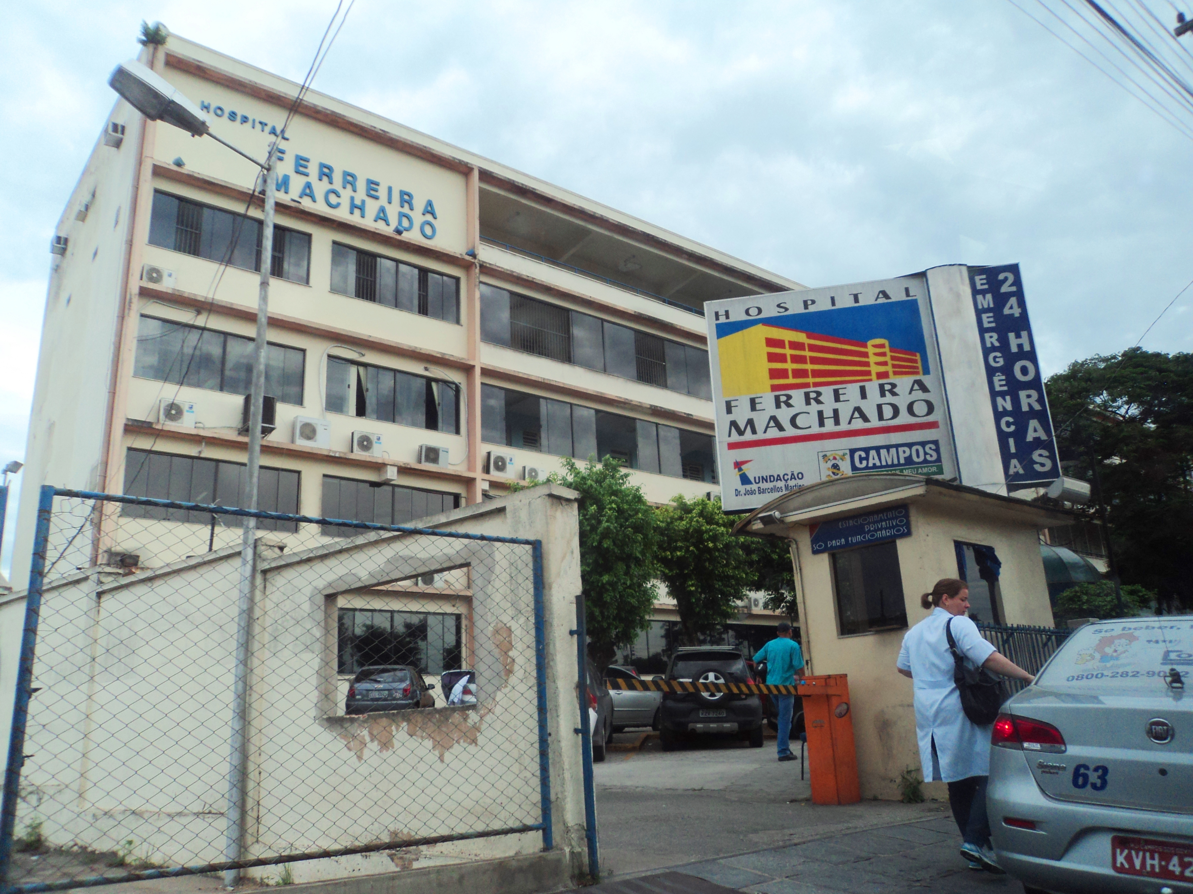 View of the Ferreira Machado Hospital, in Campos dos Goytacazes, Rio de Janeiro, Brazil.